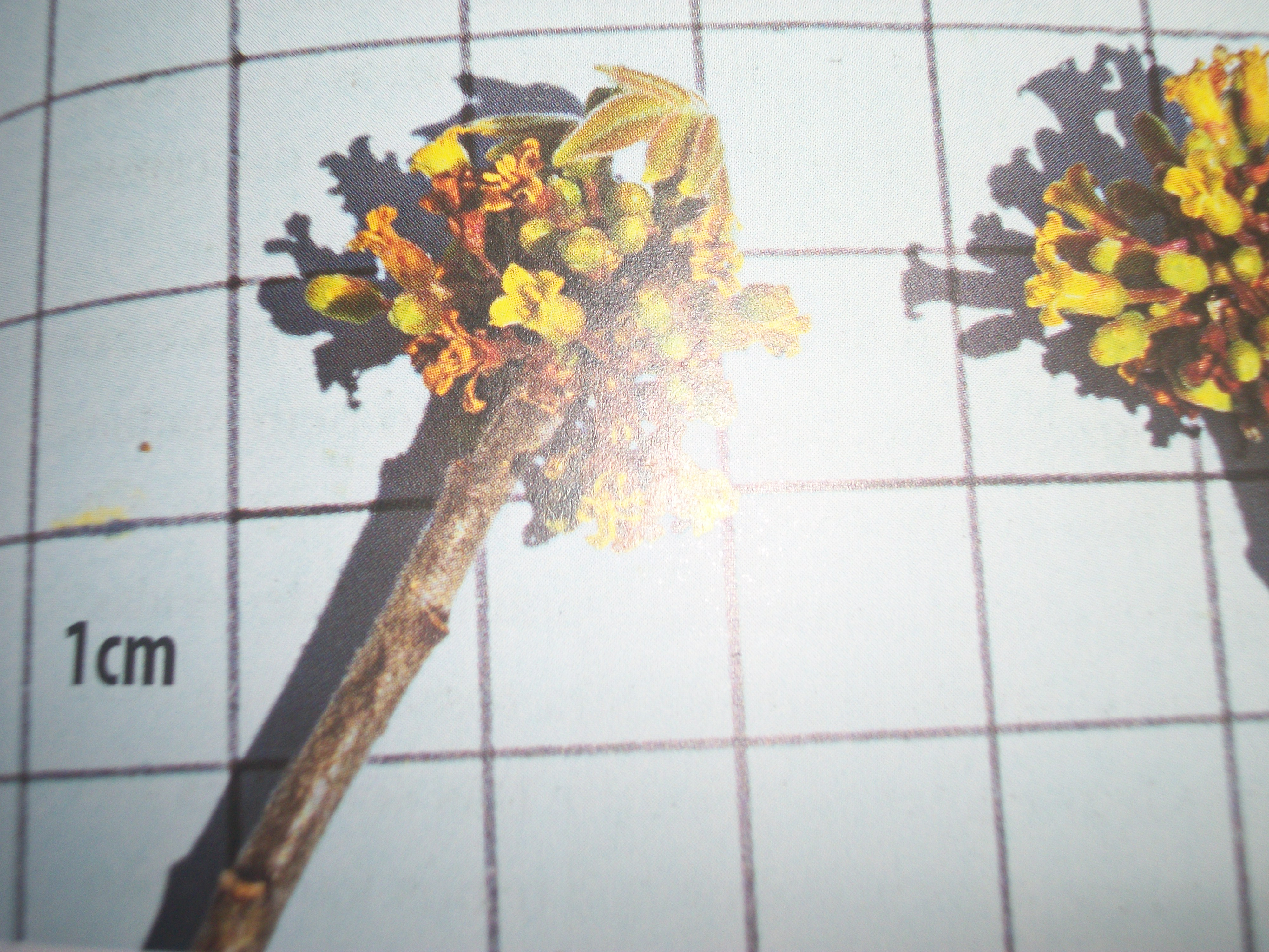 Leaves and flowers of imburana